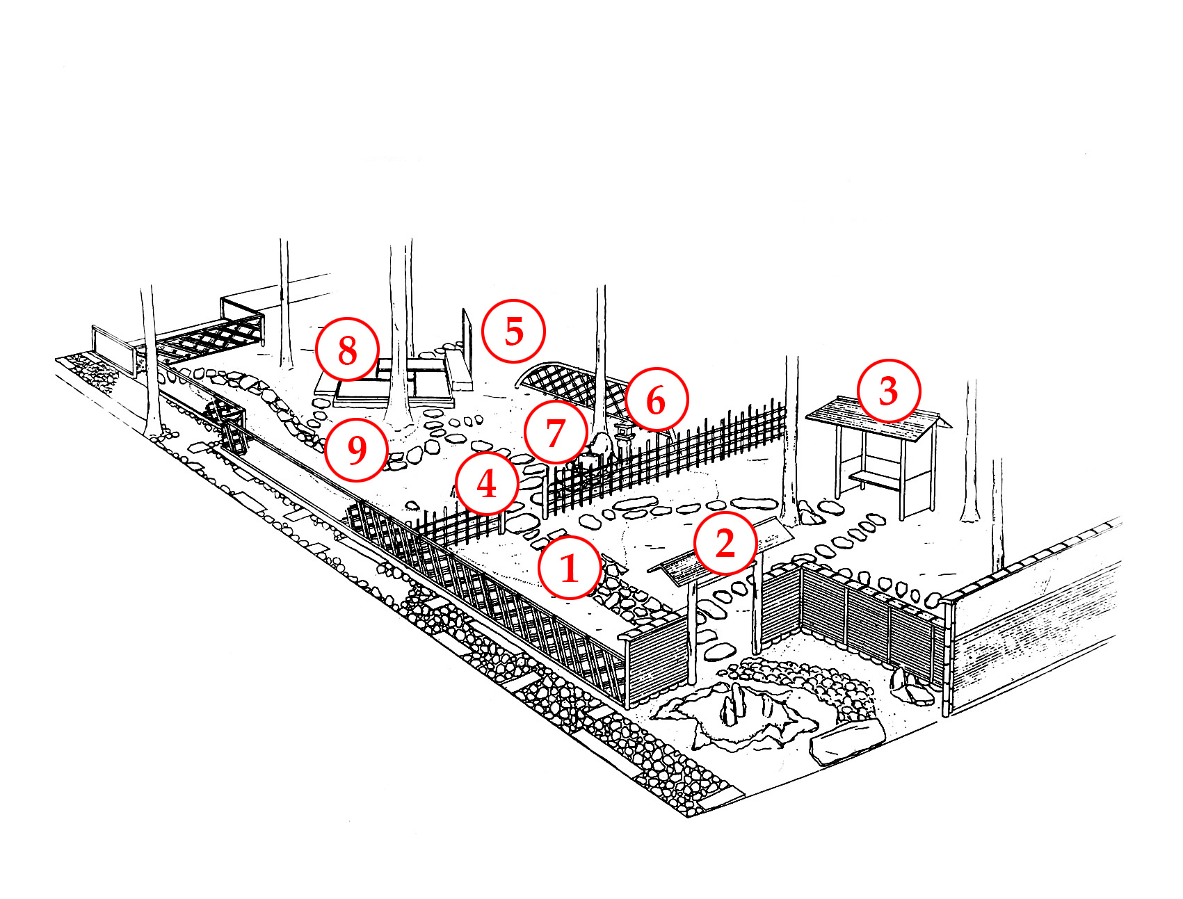 Plan of tea garden